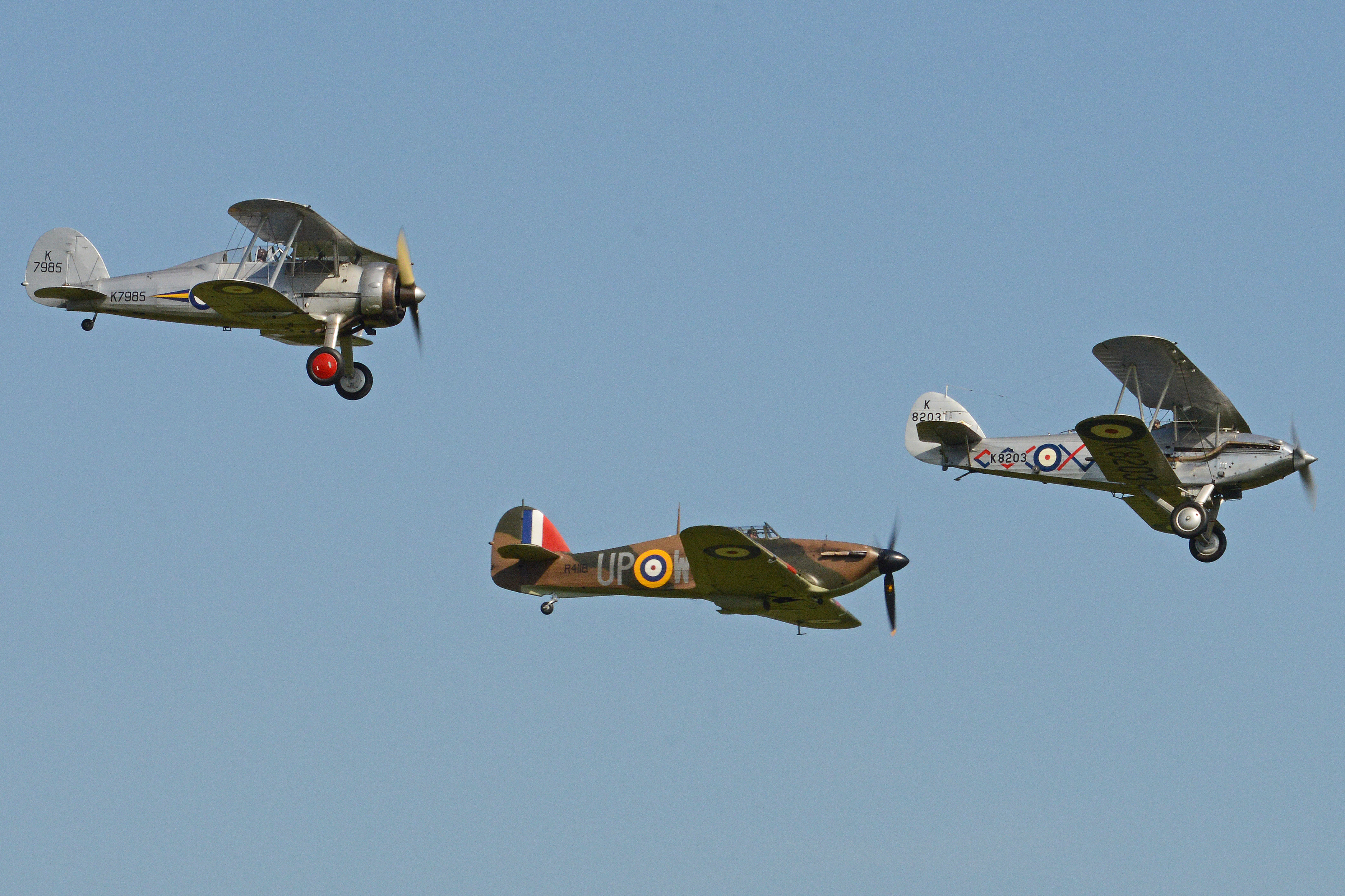 Three classic British fighters formate at Old Warden (where else!!). Leading is Hawker Demon 'K8203' (G-BTVE), followed by Hurricane I 'R4118 / UP-W' (G-HUPW) and finally Gladiator 'K7985' (G-AMRK). Seen displaying at the Shuttleworth 2016 Season Premier Airshow. Old Warden, Bedfordshire, UK. 08-5-2016